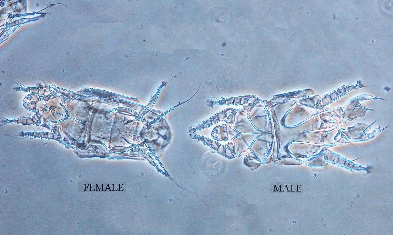 Panicle rice mite, also known as Steneotarsonemus spinki (S. spinki) male and female